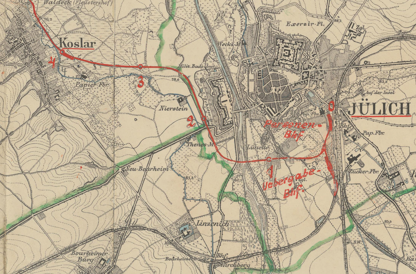 Extract from drawing of Jülich – Puffendorf railway line with direct connection to Koslar